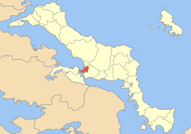 Locator map of Chalkida municipality (Δήμος Χαλκιδέων) in Euboea prefecture (Νομός Εύβοιας) in Greece.